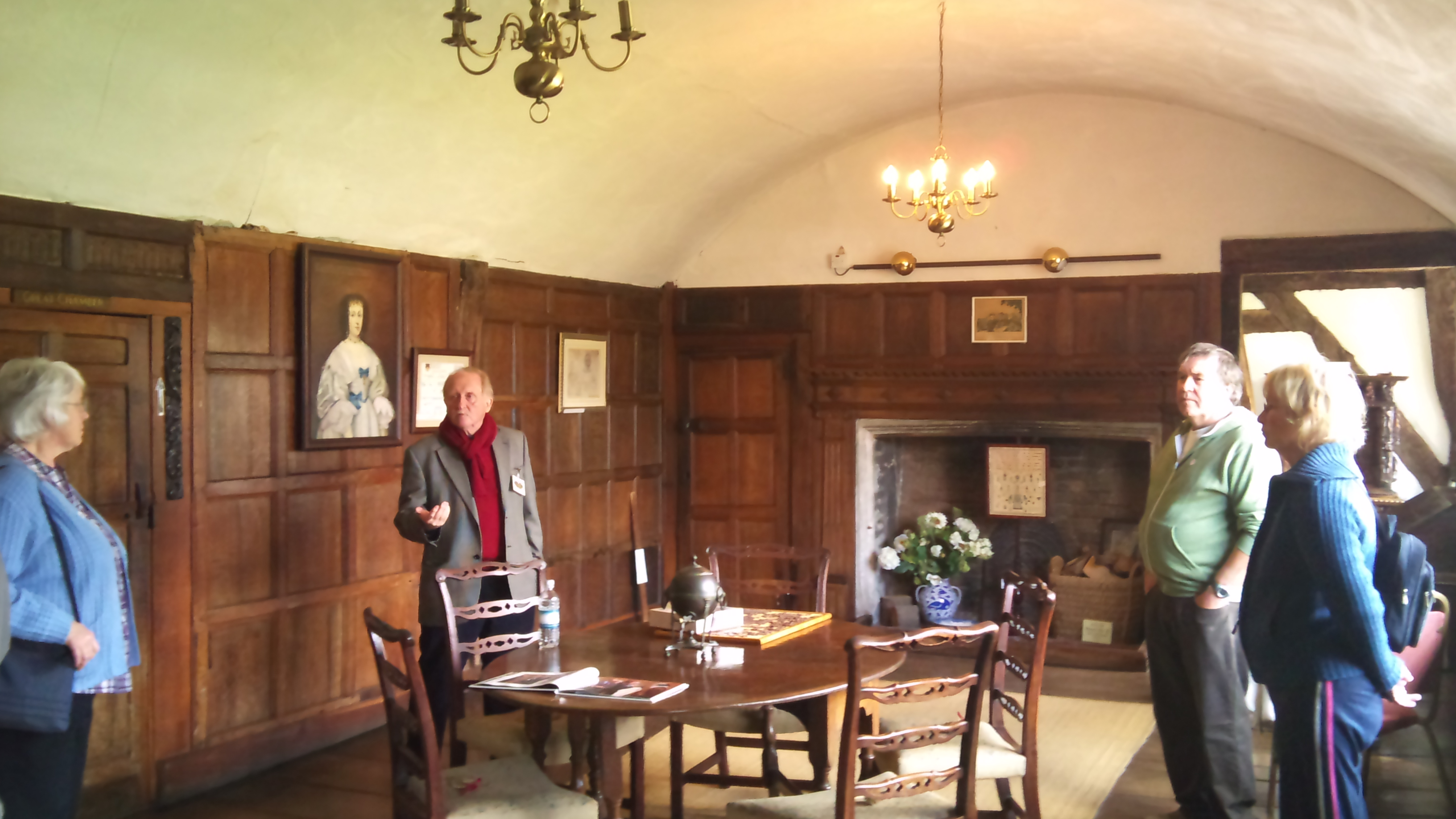 A room called withdrawing room with a "priest hole" (hiding) in the corner behind the panelling in 16th c. manor house, Harvington Hall, Worcestershire,UK